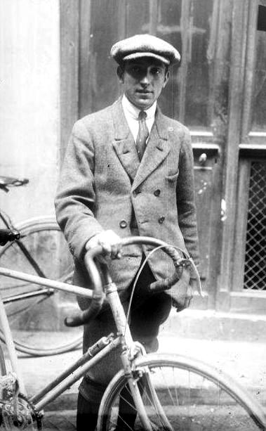 Picture of Alexis Michiels